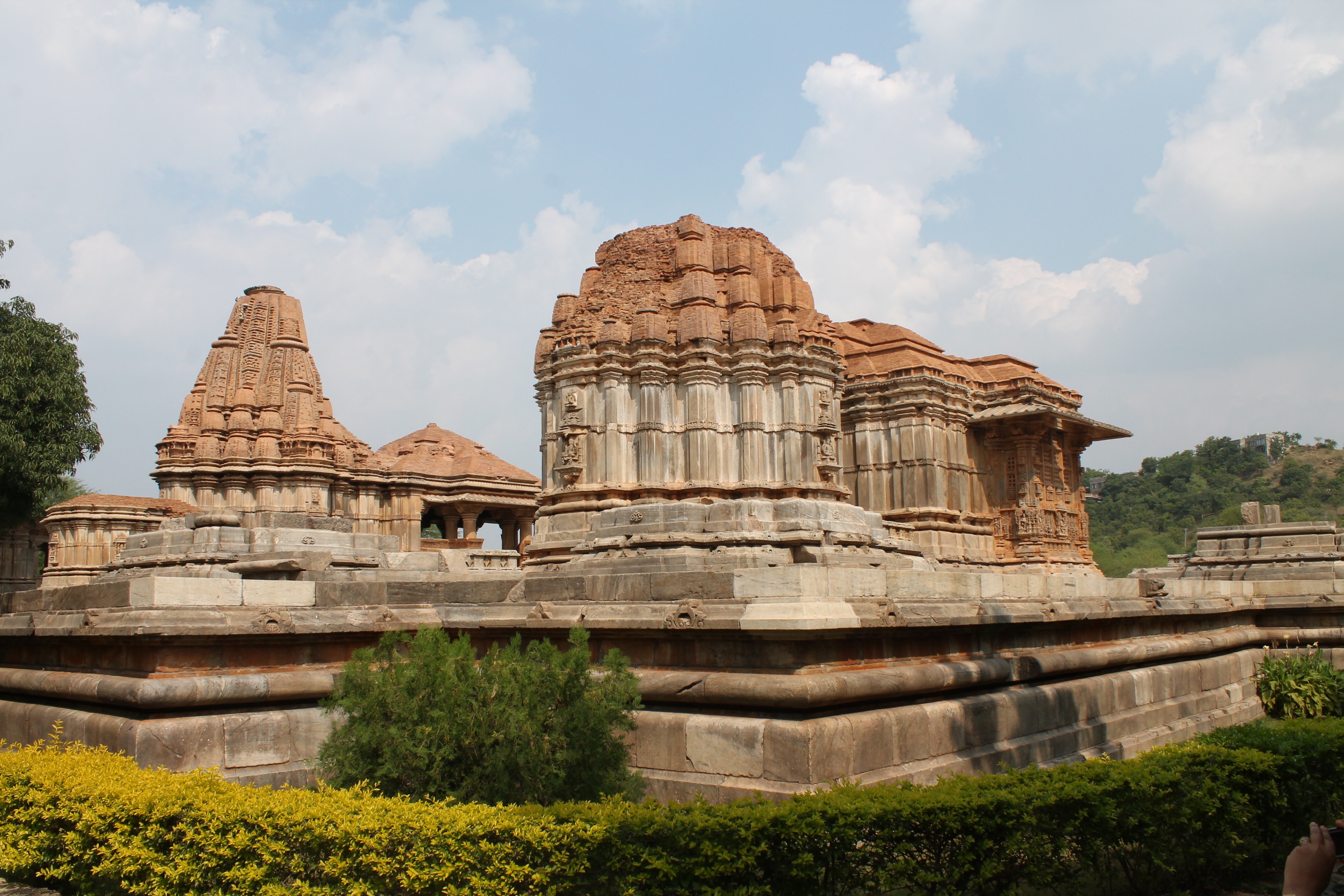 N-RJ-147